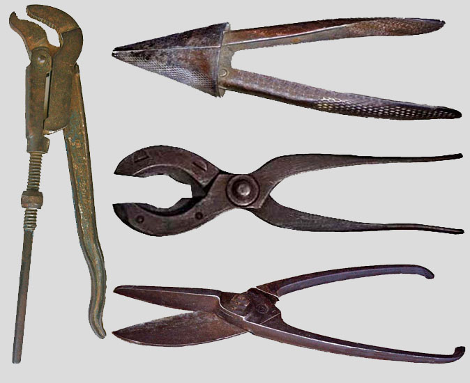 Antique tools for plumbers.